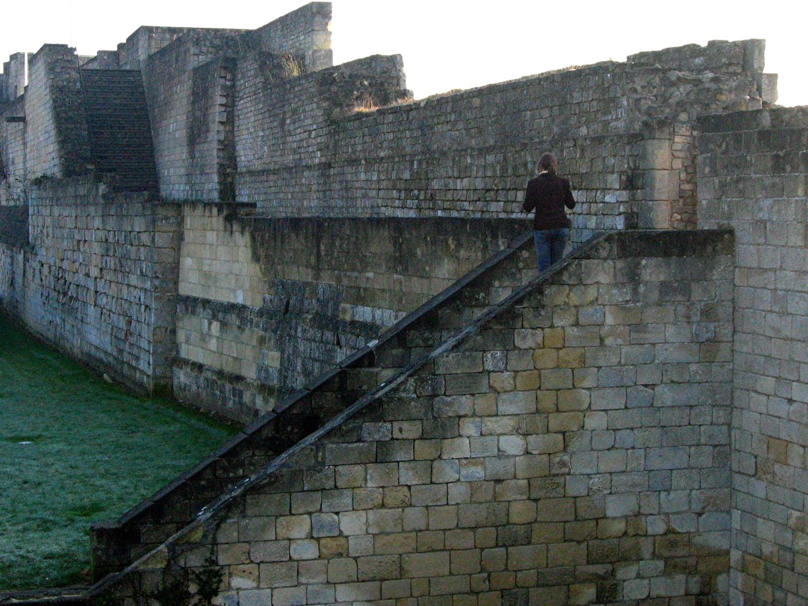 Castle of Caen, path round the battlements.